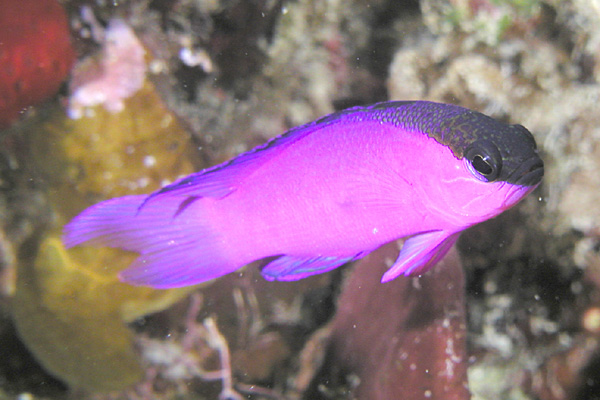 Black Cap Basslet (Gramma melacara), Roatan, Honduras. Image taken by Clark Anderson/Aquaimages.